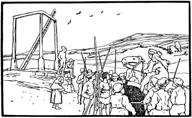 Illustration by Otto Ubbelohde to the fairy tale The Golden Bird